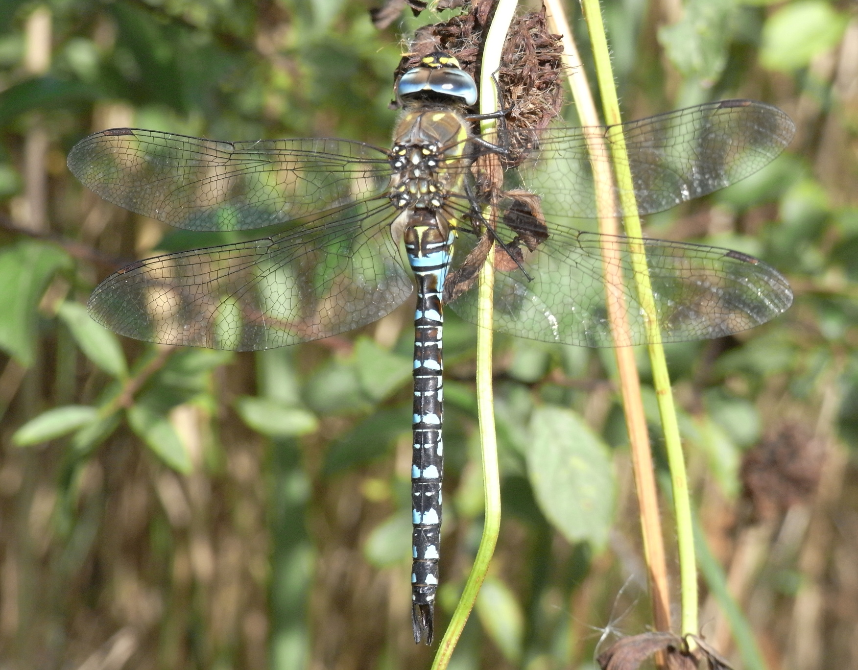 Male Migrant Hawker (Aeshna mixta) near Hamburg, Germany.